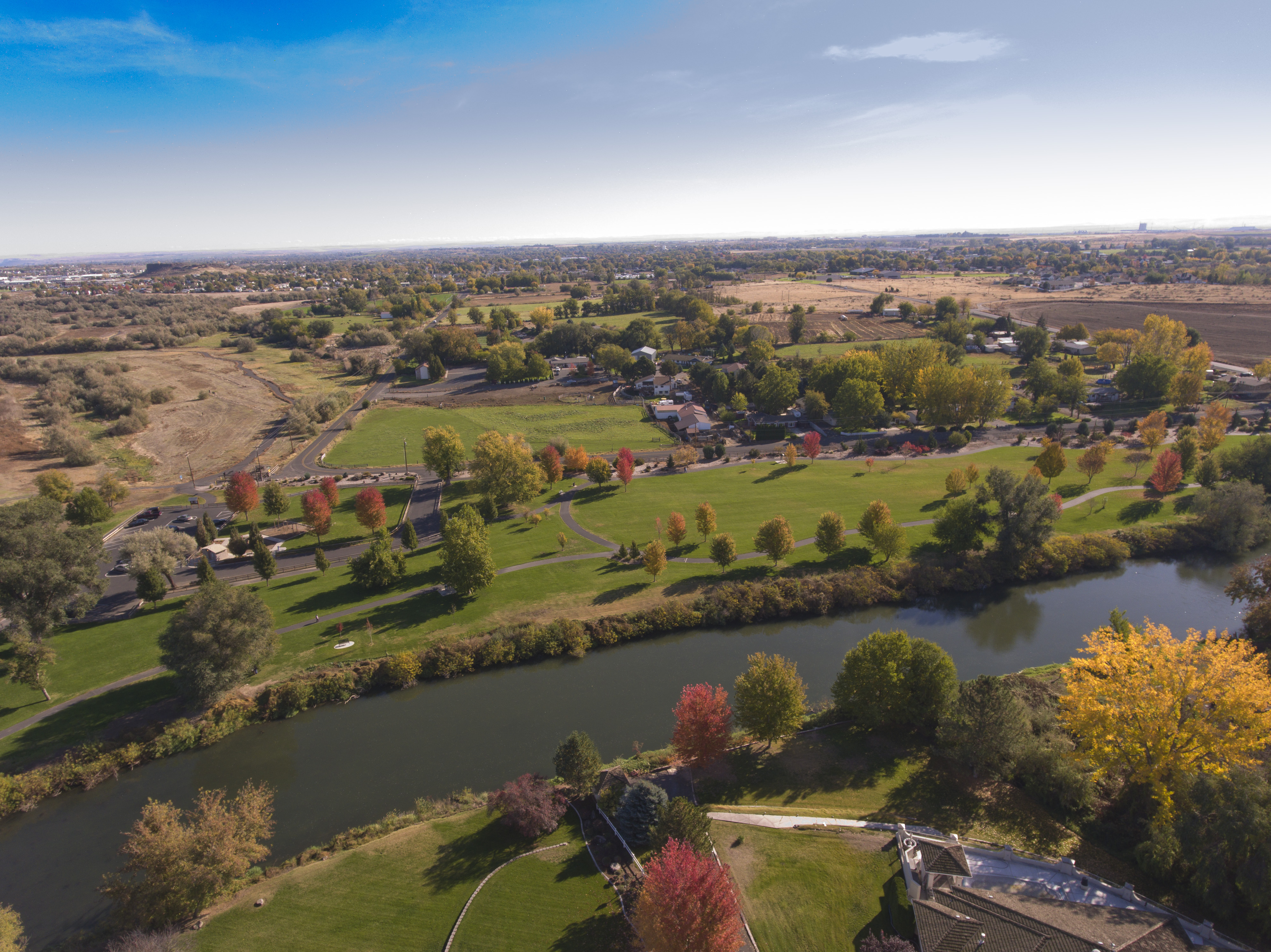 Riverfront Park shown in the Fall of 2016, looking East, with the city of Hermiston in the background. The park features 16 acres of grassy open space, access to the Umatilla River, a mile long paved walking path, and access to the 1.8 mile long paved Oxbow Trail (shown at left heading toward Hermiston).